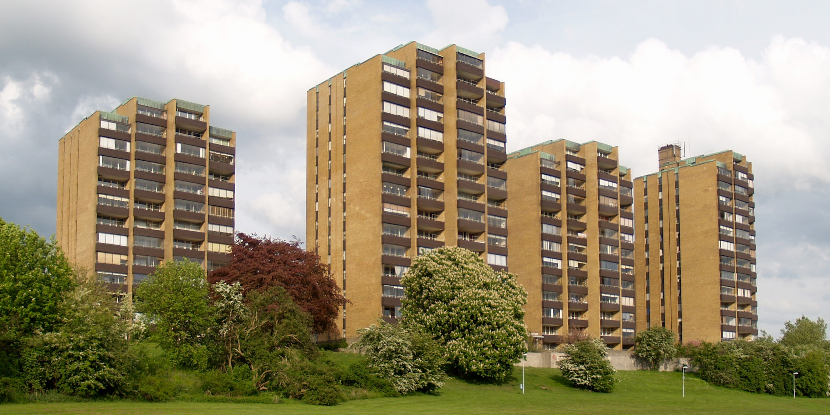 elineberg housing, helsingborg, sweden. initial competition and development by jørn utzon and swedish partners erik and henry andersson, final project and construction by erik and henry andersson, 1954-66.